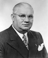 former Congressman John C. Kluczynski of Illinois.